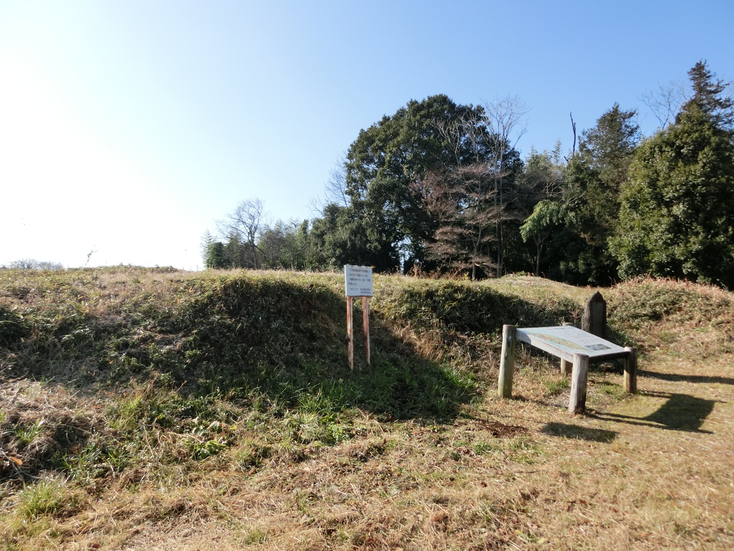 Ruins of Ina Family Residence